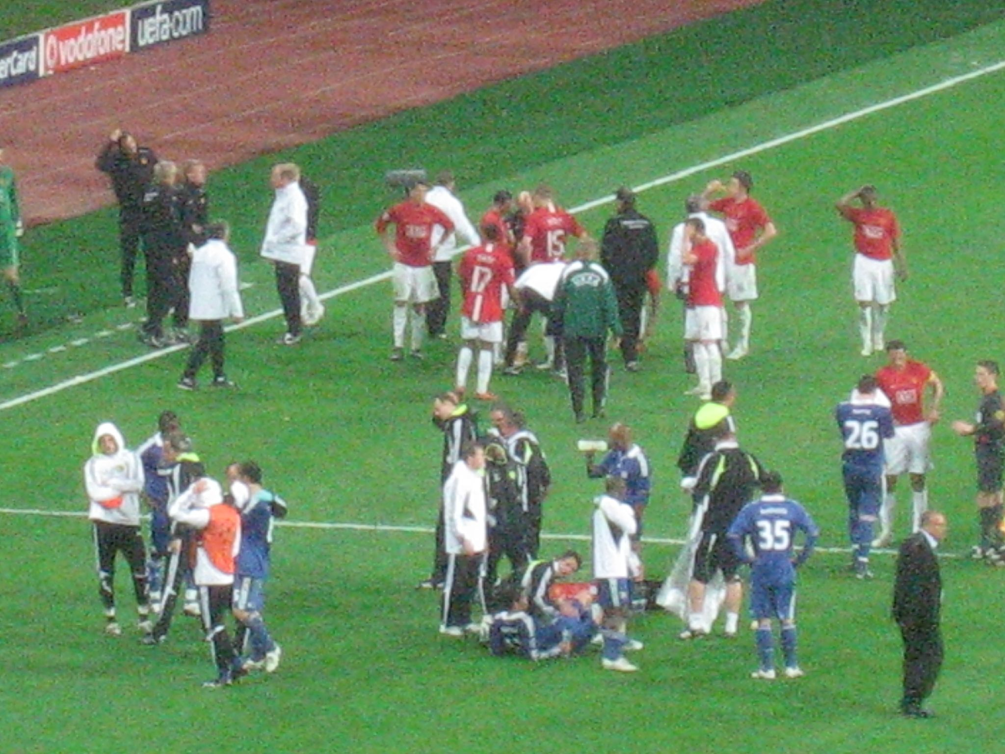 Manchester United and Chelsea players prepare for the penalty shoot-out at the end of the 2008 UEFA Champions League Final at the Luzhniki Stadium, Moscow, on 21 May 2008